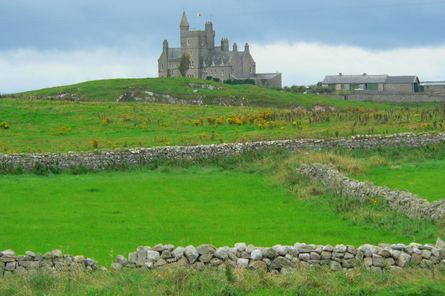 Classiebawn Castle View from residential area on Mullaghmore Peninsula with the stone walls.